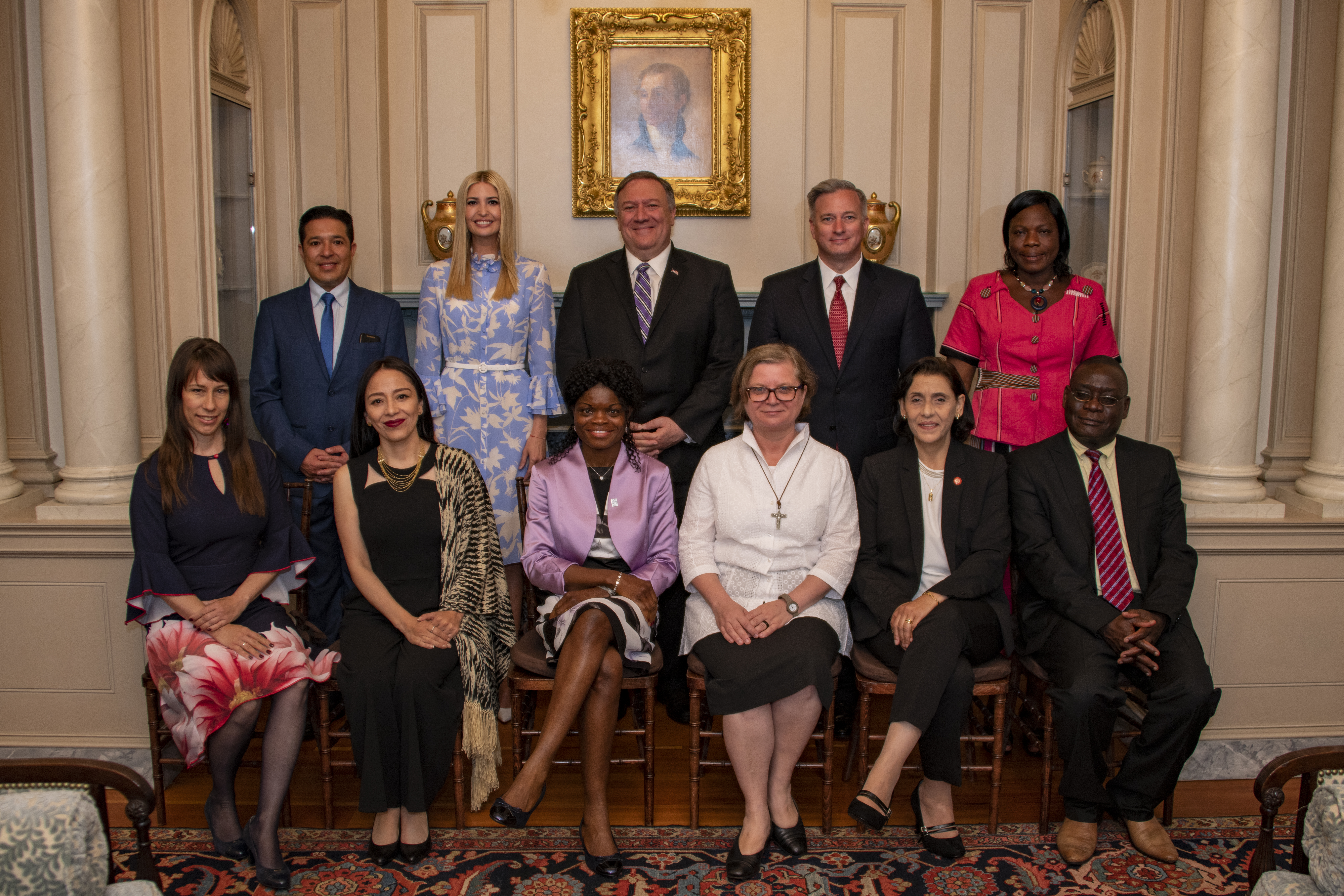 U.S. Secretary of State Michael R. Pompeo (center), Advisor to the President Ivanka Trump (center left), and Ambassador for Trafficking In Persons John Richmond of the Office to Monitor and Combat Trafficking in Persons (center right) pose for a group photo with the 2019 'TIP Report Heroes' at the U.S. Department of State, in Washington, DC on June 20, 2019. [State Department photo by Ron Przysucha/ Public Domain]